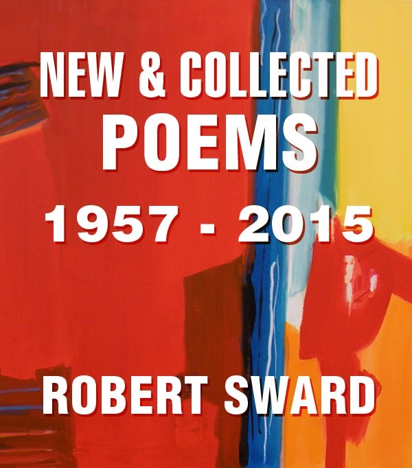 New & Collected Poems 1957-2015